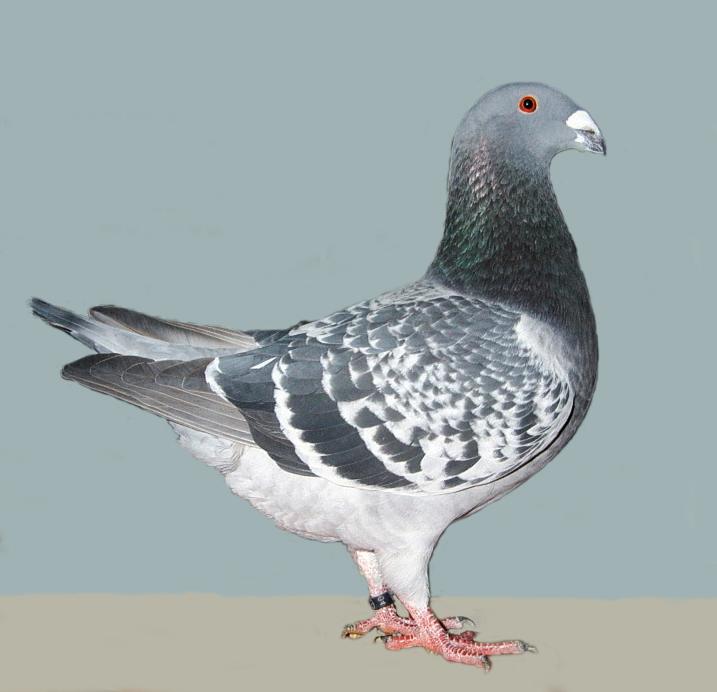 Dutch Beauty Homer (Blue Chequer)